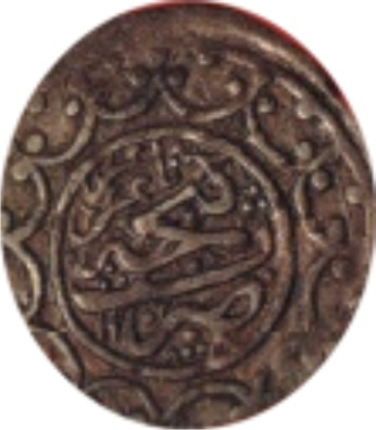 Coin_ganja_khanate_18th-century_abbasi_silver